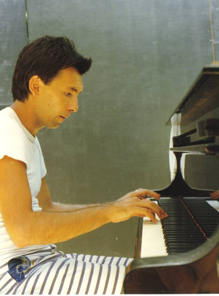 Youri Egorov. International Piano Festival of La Roque d'Anthéron